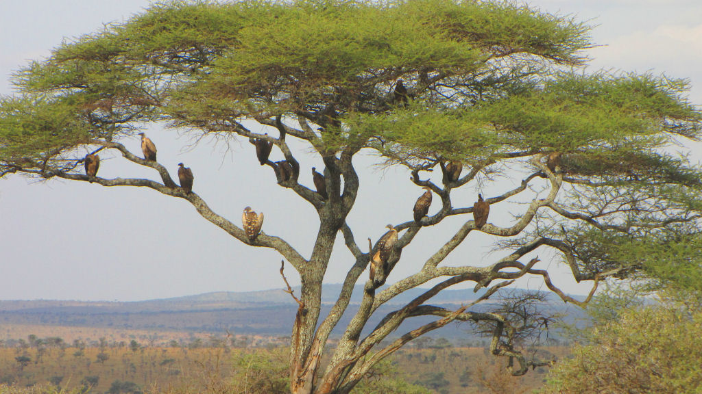 White-backed Vultures (Gyps africanus), fifteen in tree in Serengeti Park, Tanzania